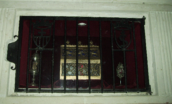 St. Peter Ermengol's burial in the church of St. Jaume at La Guàrdia dels Prats (Tarragona)